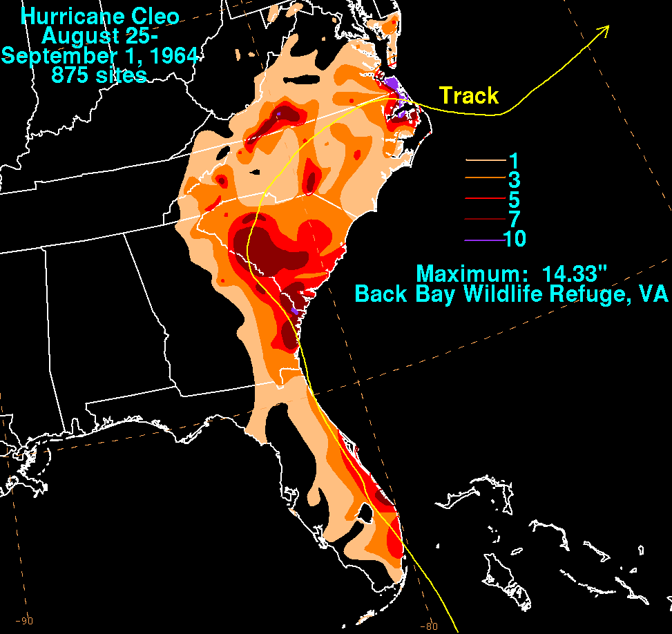 Storm total rainfall map of Hurricane Cleo during August and September 1964.